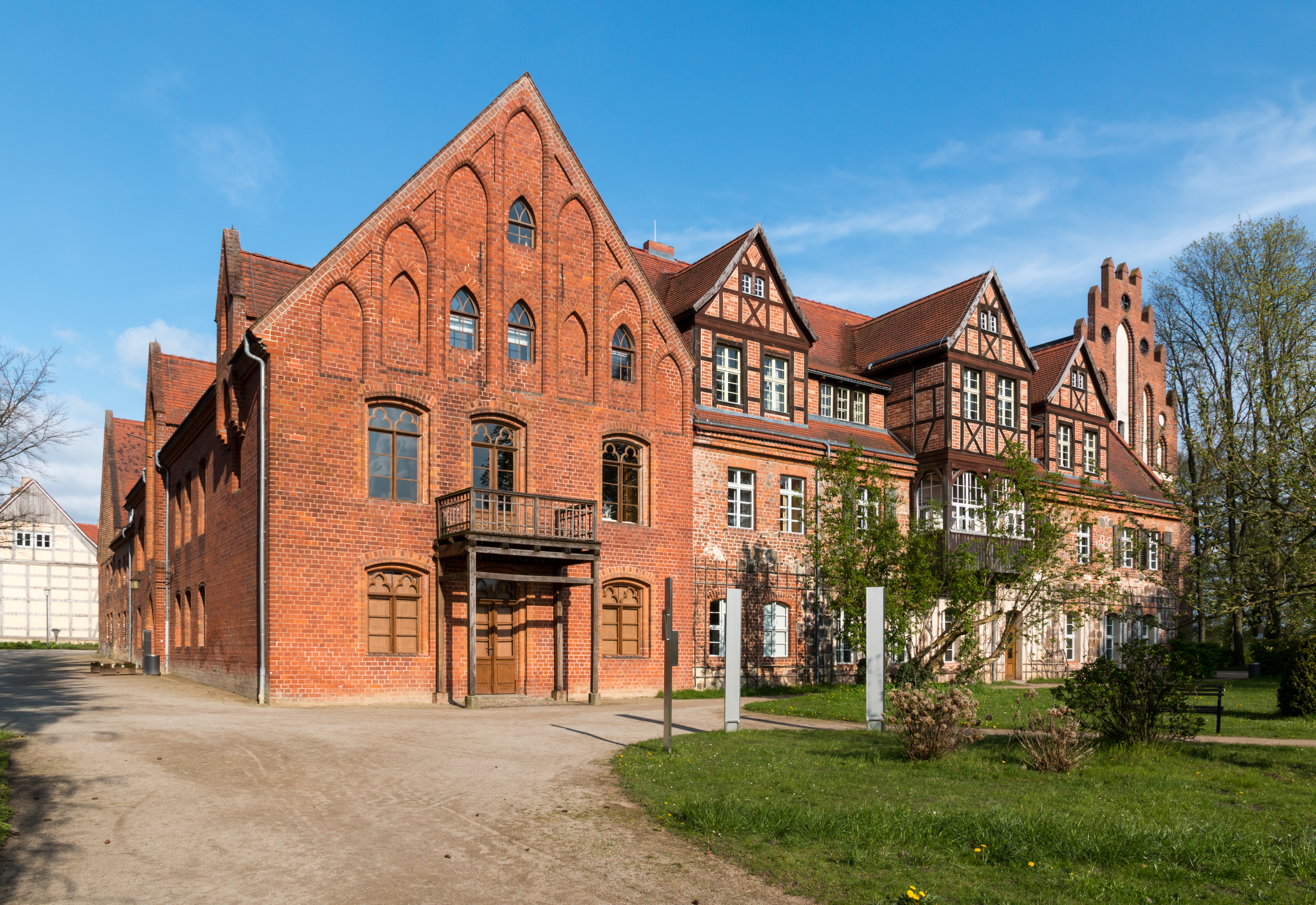 Abbey, Monastery Endowment of the Holy Grave, Heiligengrabe, Brandenburg, Germany